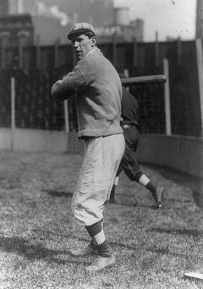 Delos Drake of the St. Louis Federal League team